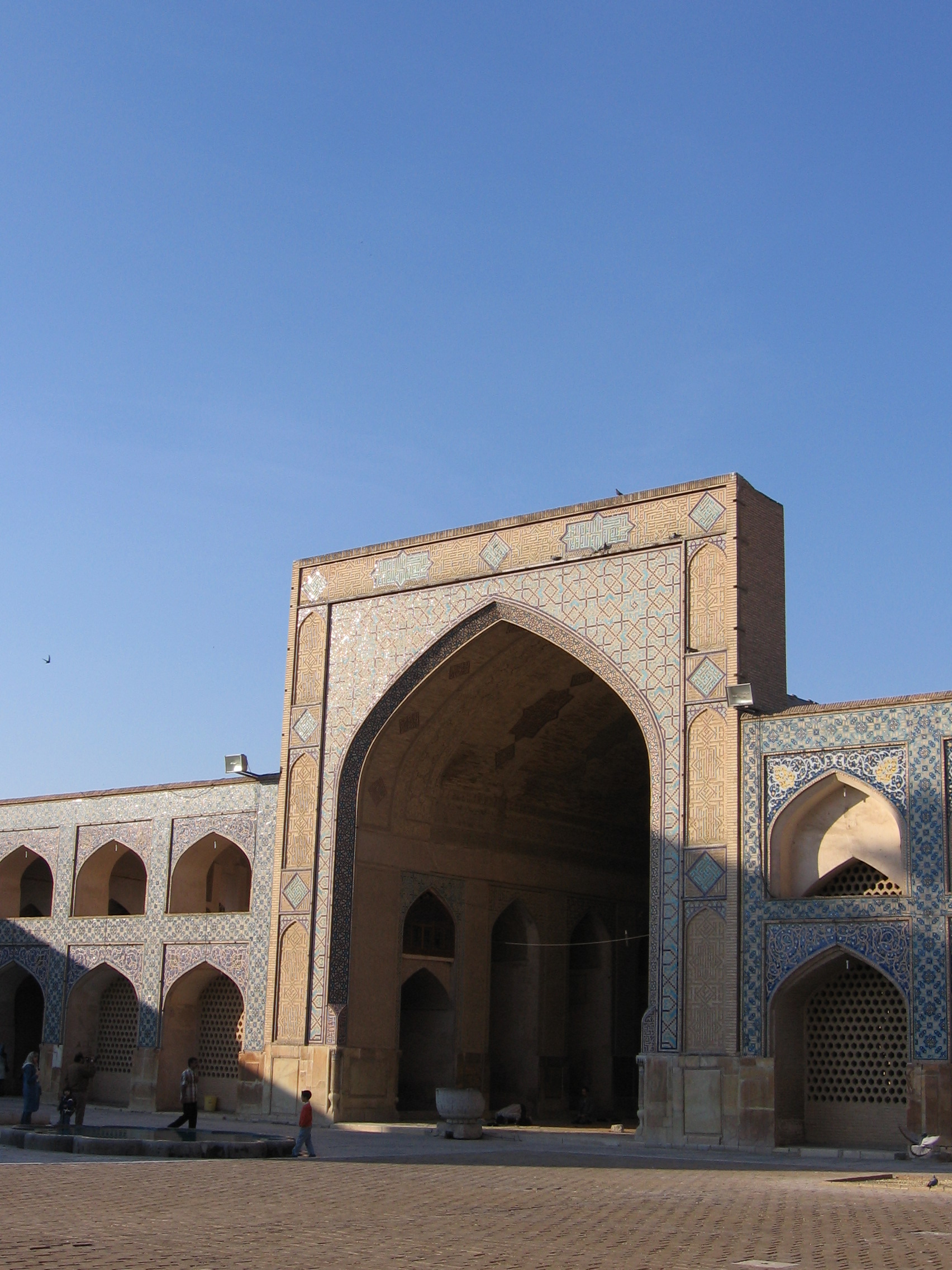 East Sector of Jame' Mosque, Esfahan, Iran Photo by : Shervin Afshar